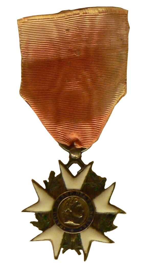 French Legion of Honour, knight insigna, Ist Empire, by order of 1804